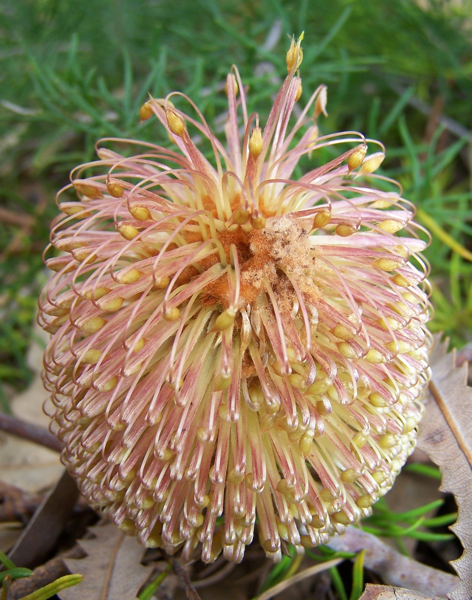 This is a cropped version of Image:Banksia telmatiaea 02 gnangarra.jpg, which was taken by Gnangarra on 8 January 2007, in Kings Park, Western Australia. It shows the inflorescence of Banksia telmatiaea, an Australian shrub.